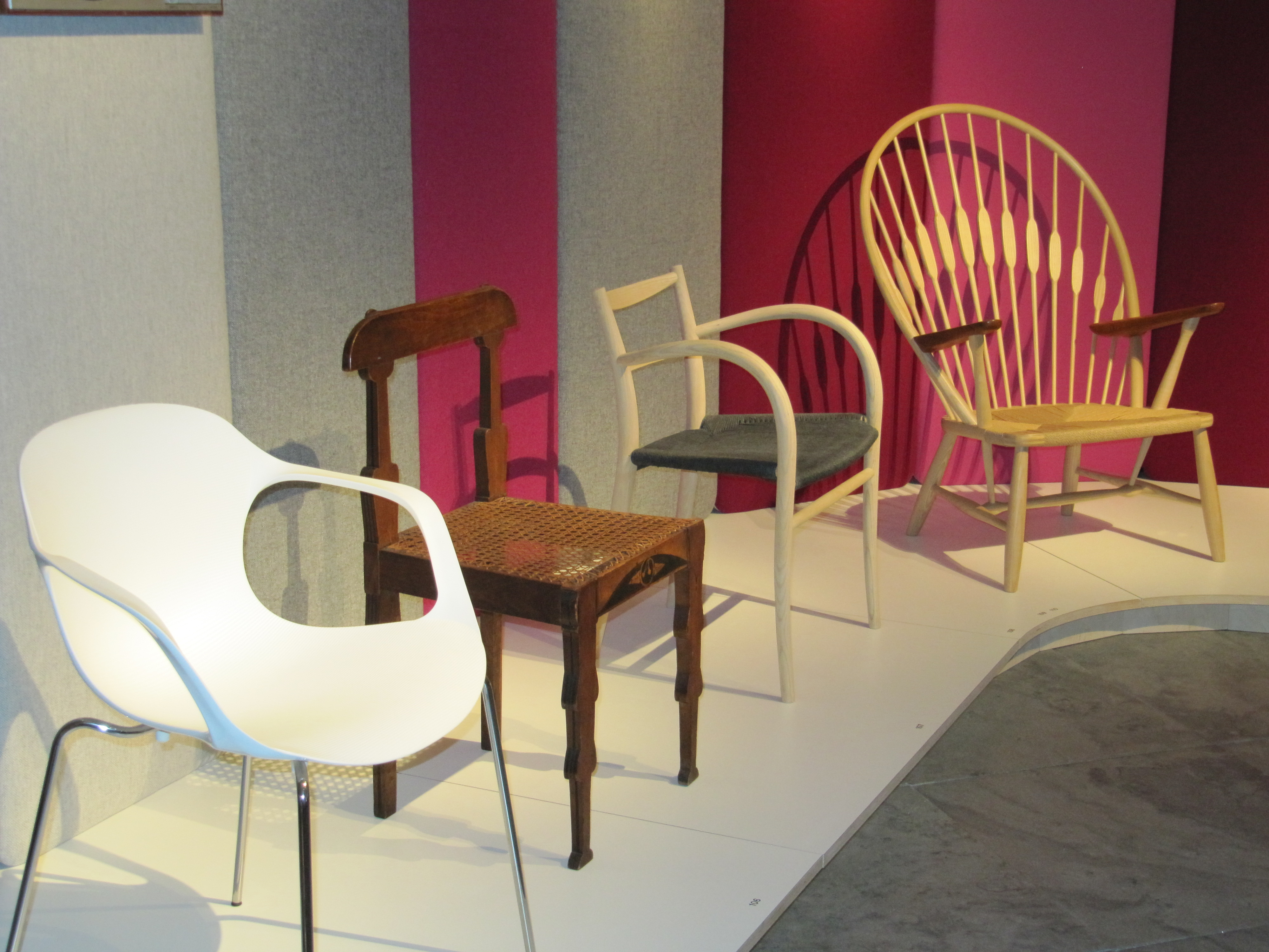 Selection of Danish Modern chairs at the Danish Design Museum, Copenhagen, September 2011.